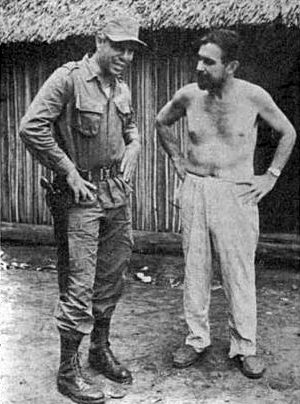 O capitão Sérgio Ribeiro Miranda de Carvalho (à esq.) e o indianista Cláudio Villas Bôas